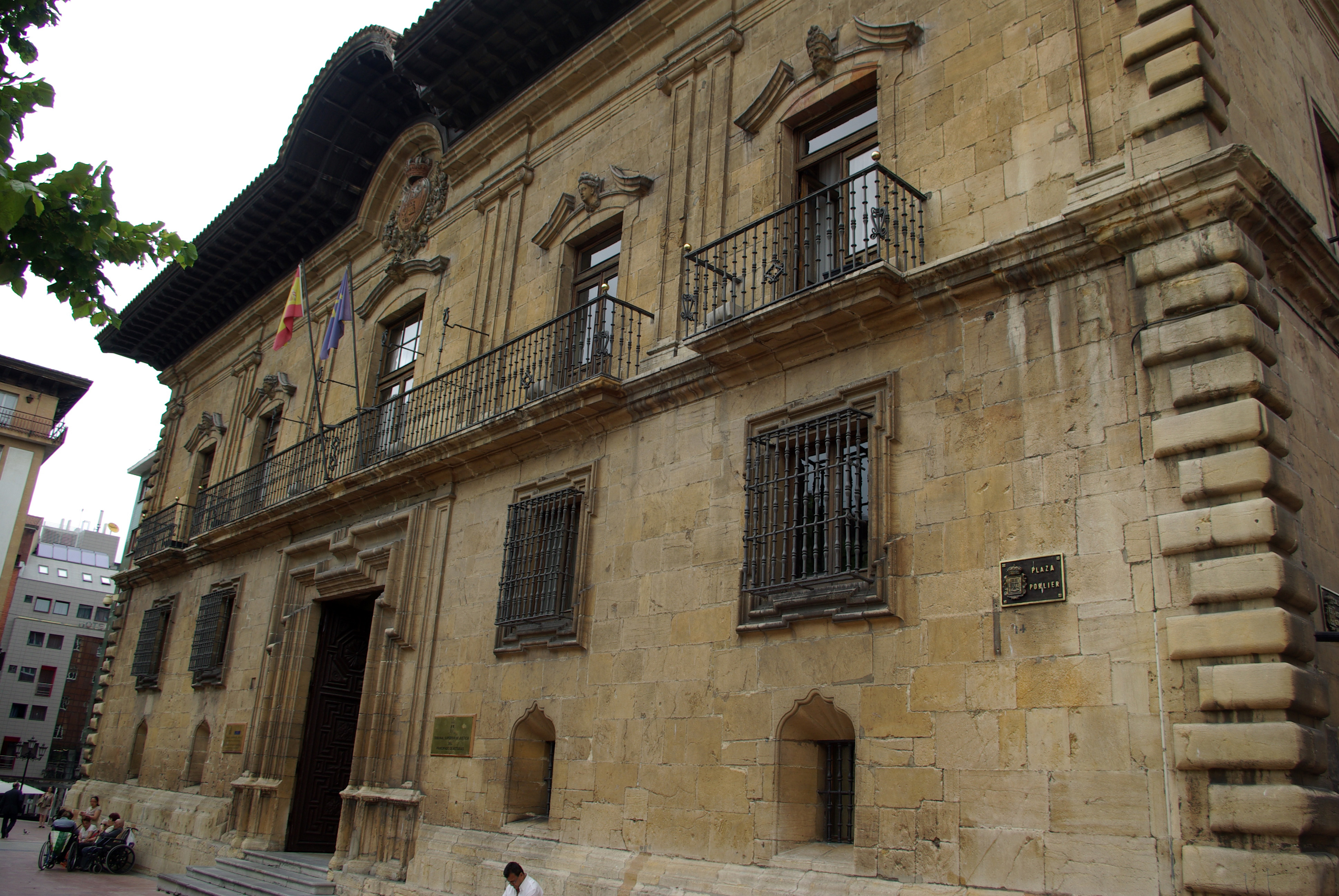 Camposagrado Palace in Oviedo (Asturias, Spain).